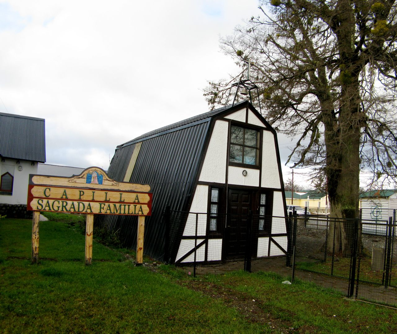 Little church in Tolhuin